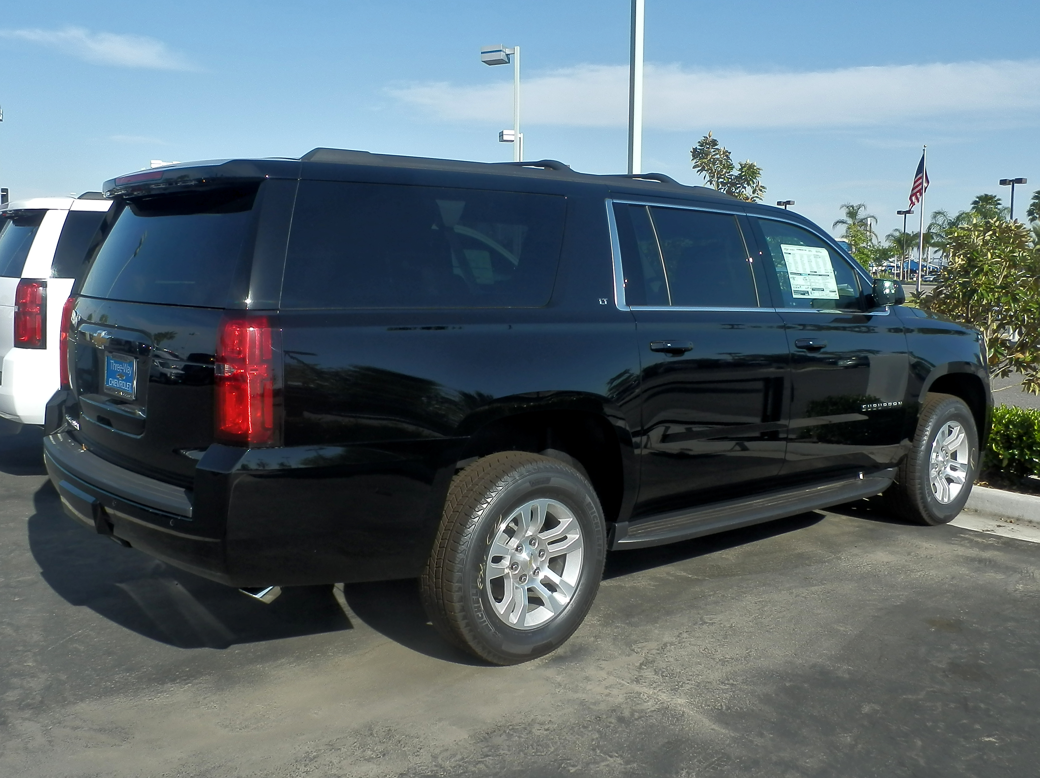 Chevrolet Suburban in Bakersfield